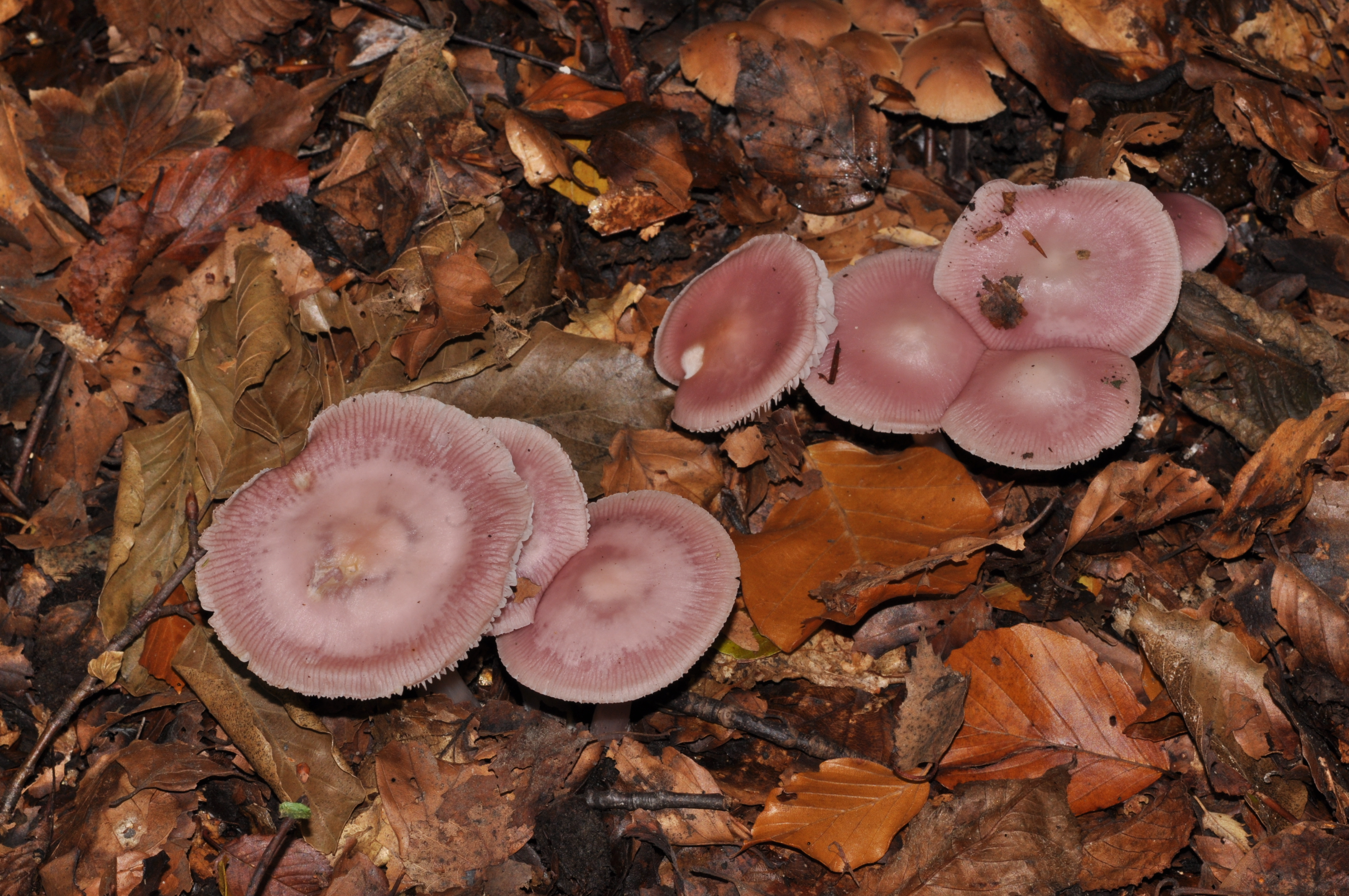 Lilac Bonnet (Mycena rosea) near Biggesee, Sauerland, Germany.